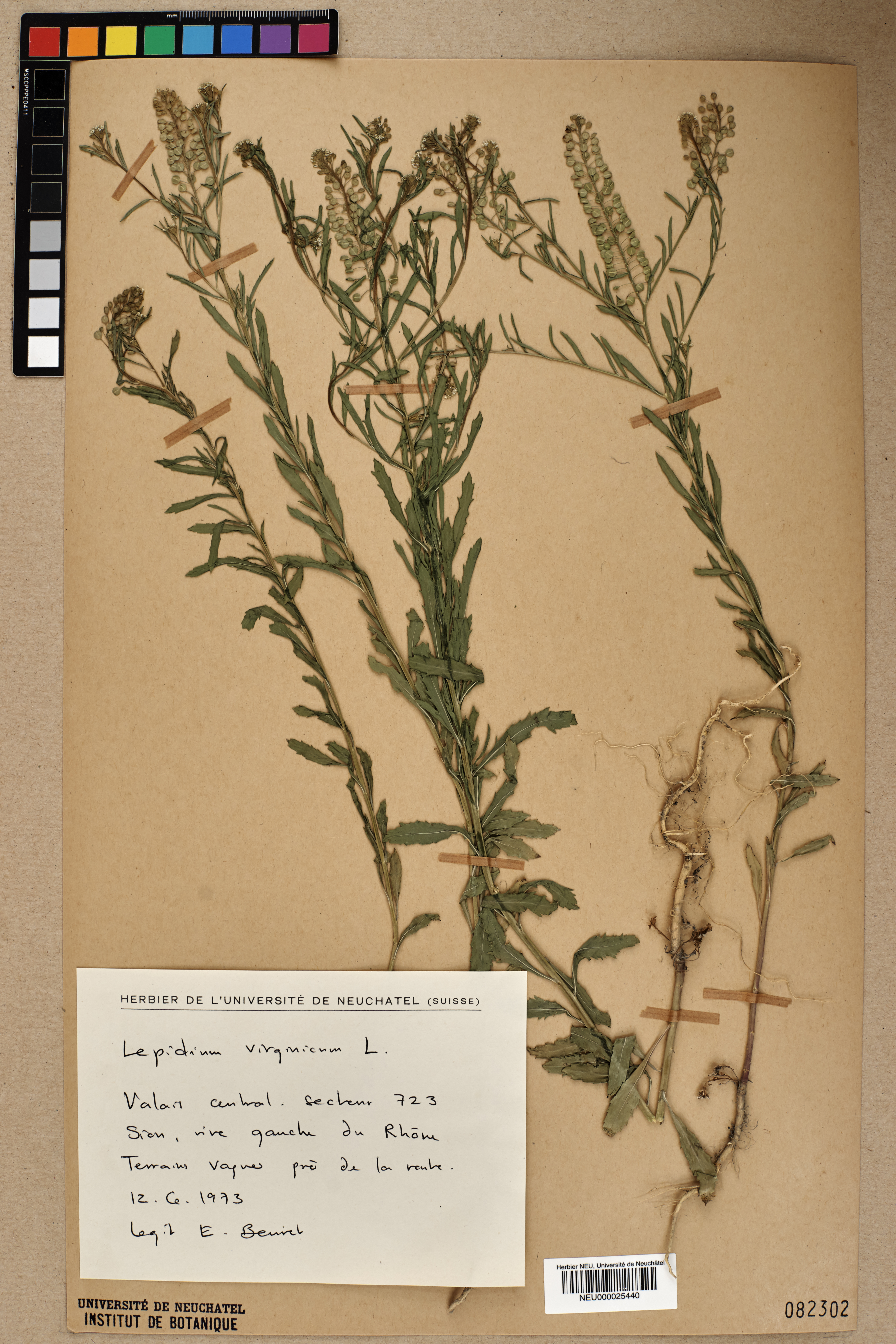 Dried pressed specimen of Lepidium virginicum